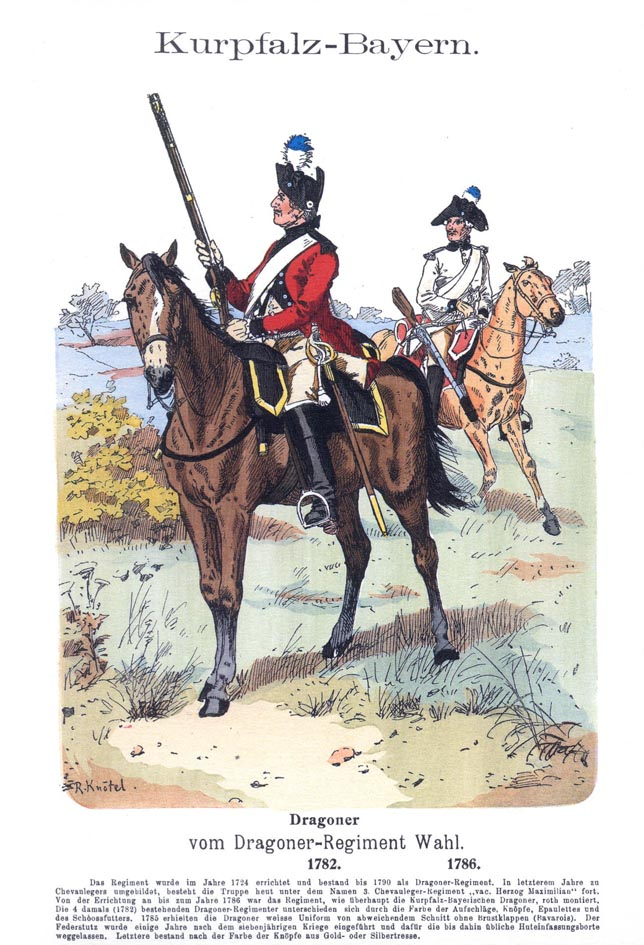 Kurpfalz-Bayern. Dragoner-Rgiment von Wahl. Dragoner. 1782. 1786